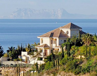 View from the elegant village of Elviria, Spain, facing Gibraltar and Africa